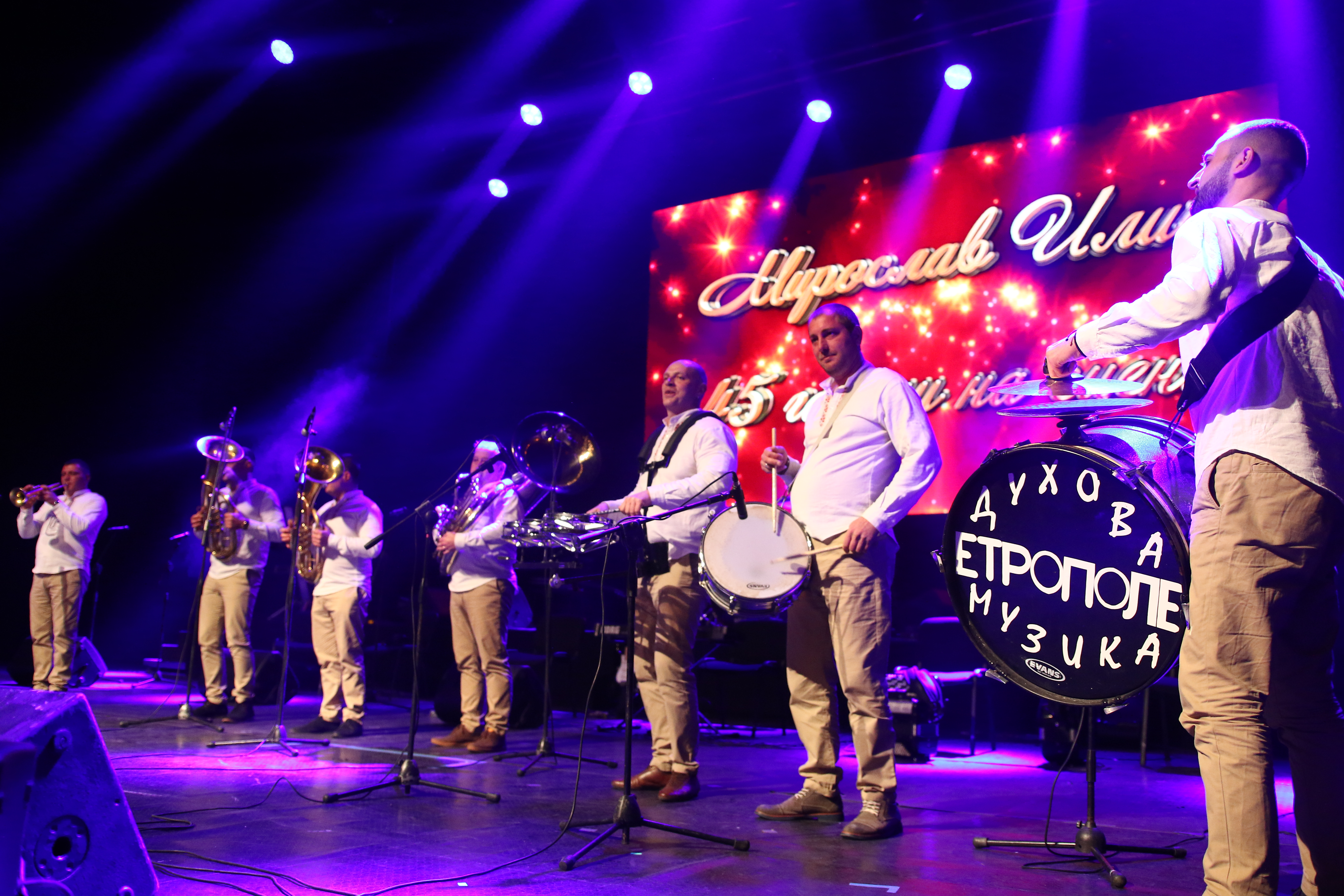 A brass band from Etropole, Bulgaria, performs folk music. This photo has been taken in the country: Bulgaria